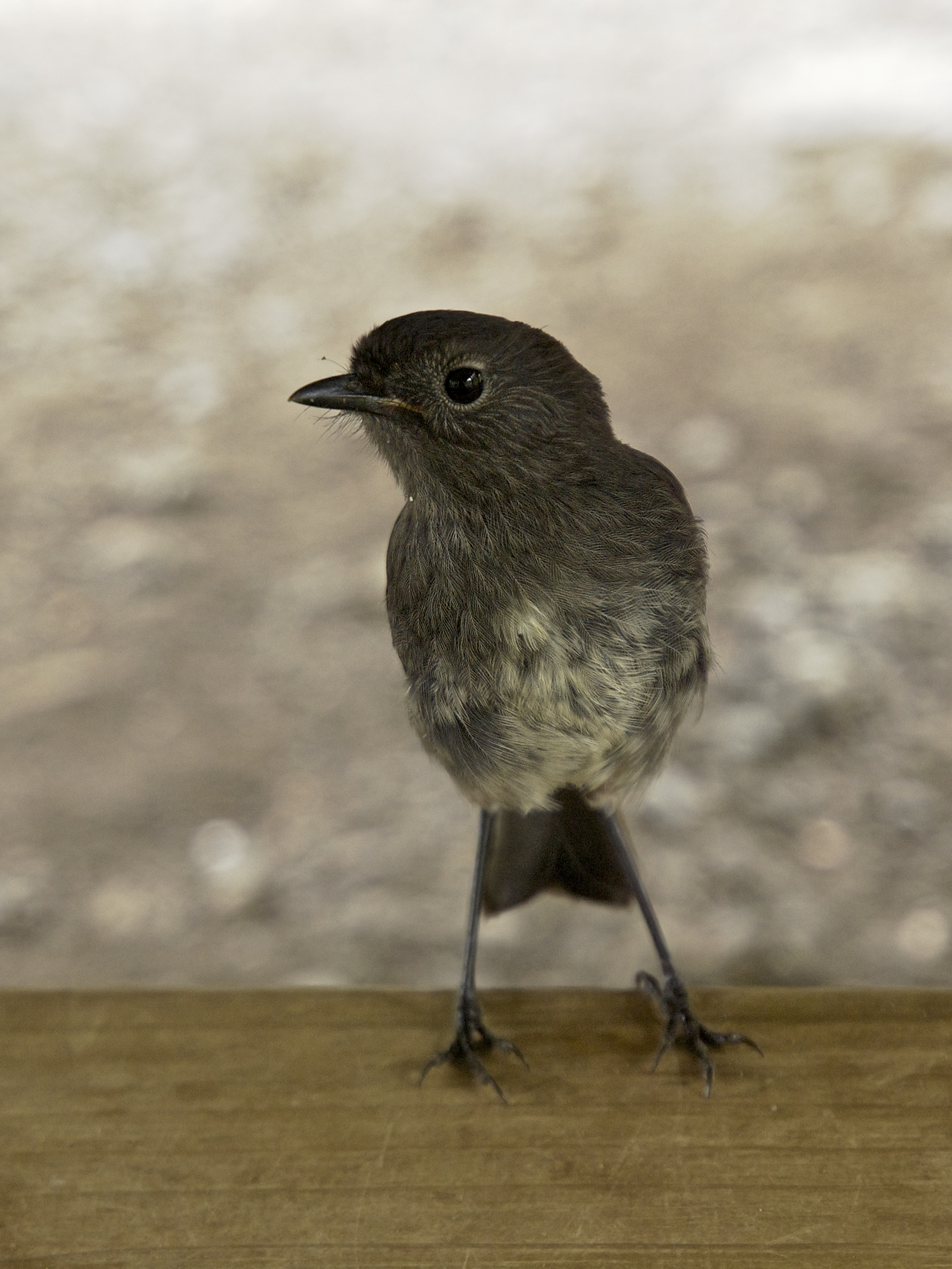 New Zealand Robin (Petroica australis), Fjordland National Park, New Zealand